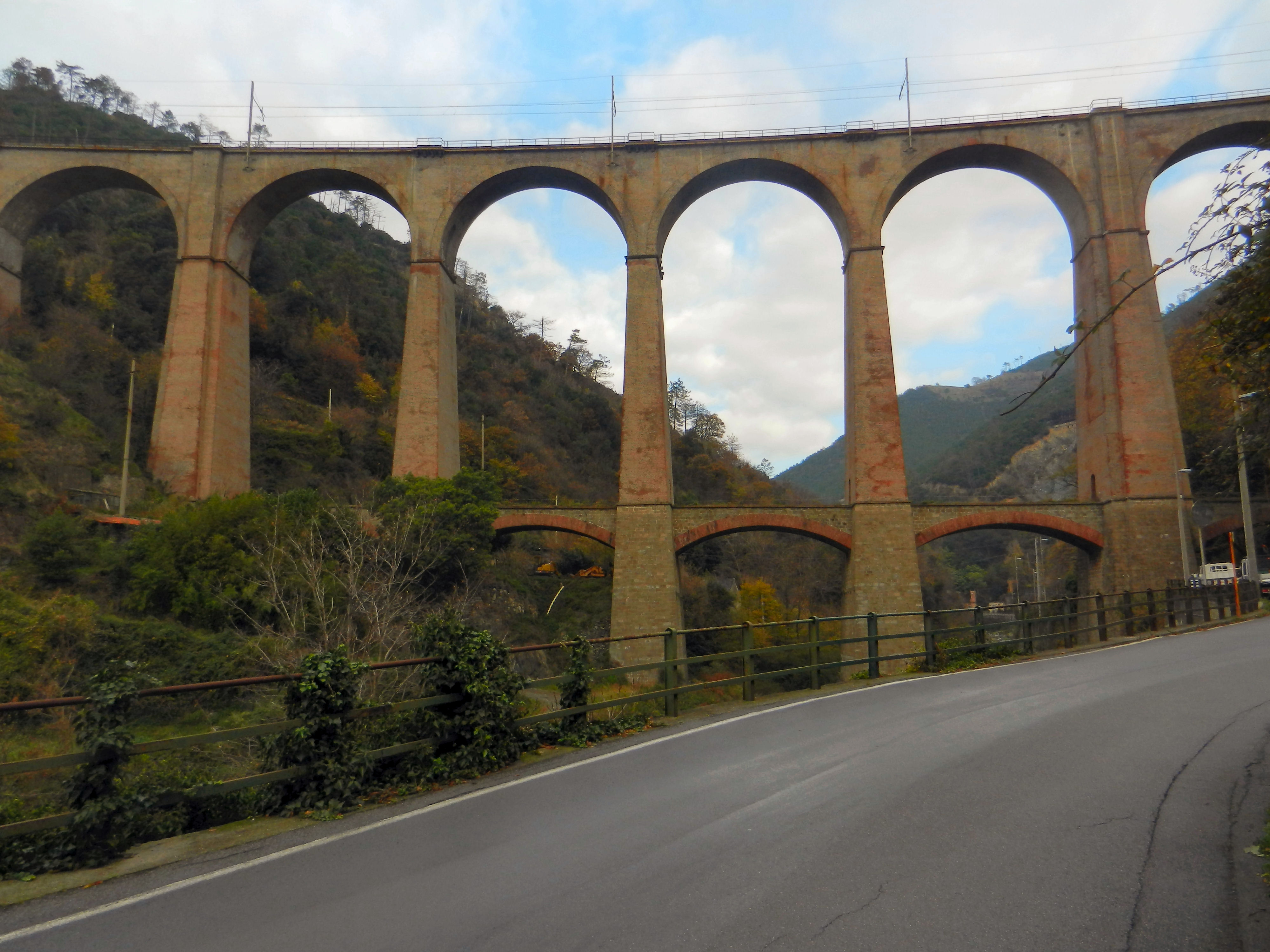 Genoa, Italy, quarter of Pegli railway viaduct over Varenna creek